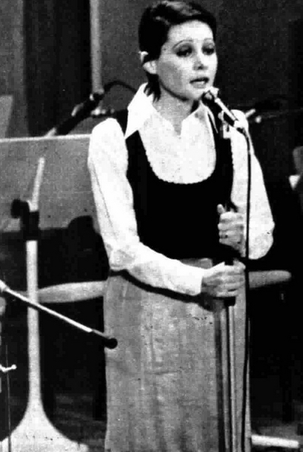 Italian singer Anna Identici at the 1973 Sanremo Festival